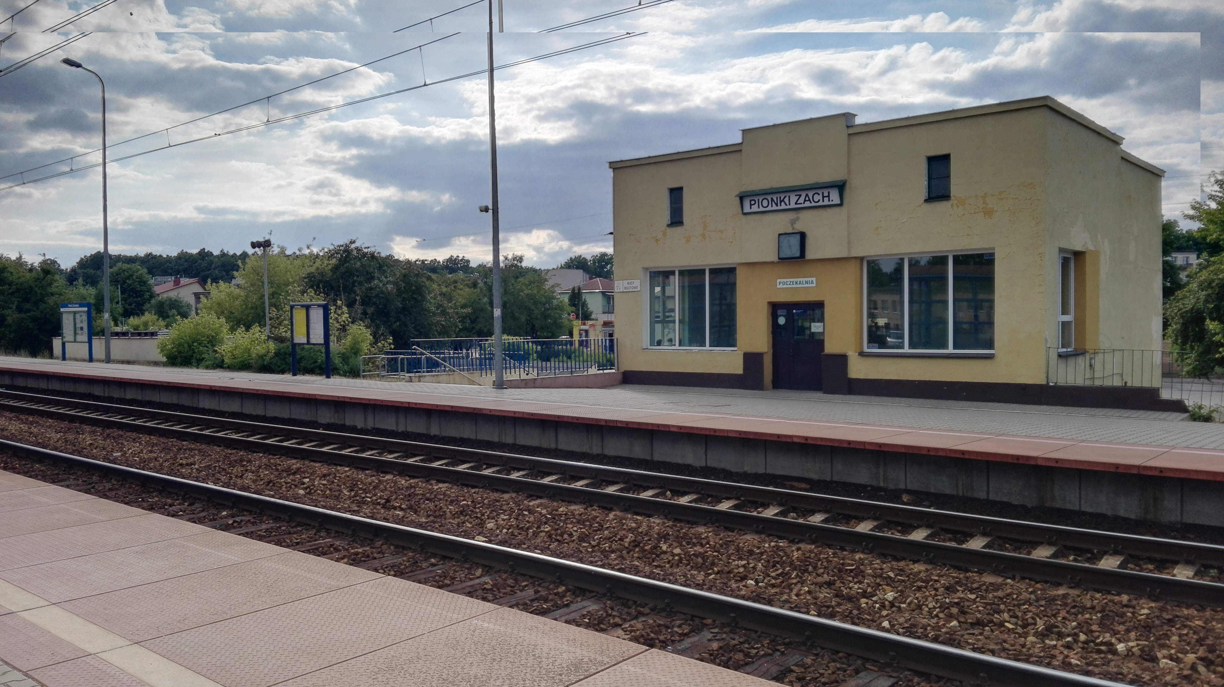 4 15-go Stycznia Street in Pionki